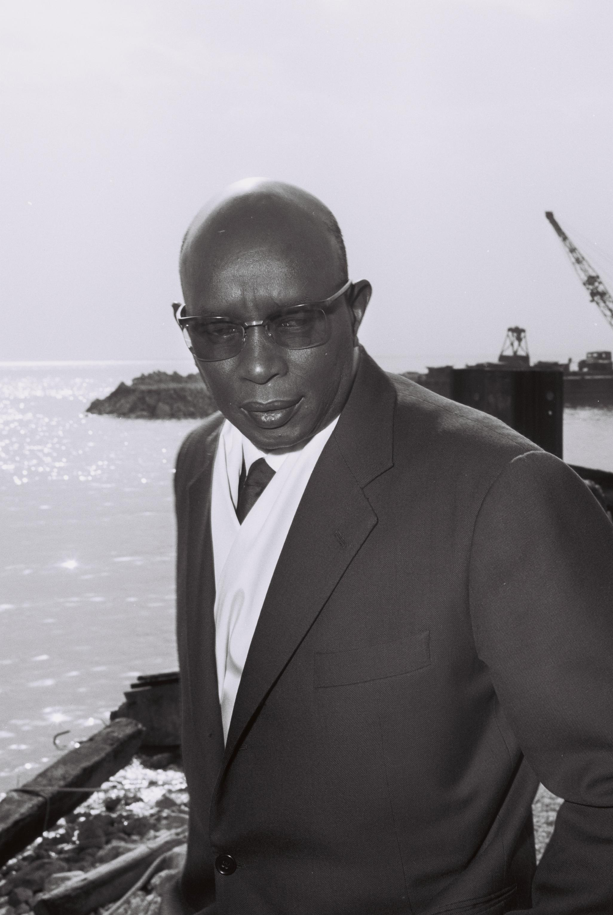 King Mwambutsa at the Sea of Galilee